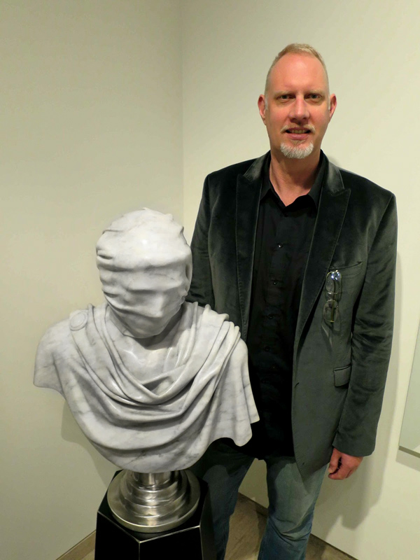 Robert Hague at the 2015 Wynne Prize